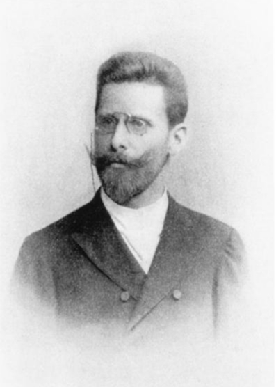 Ernst Brausewetter (1863–1904), German translator, author and publisher.